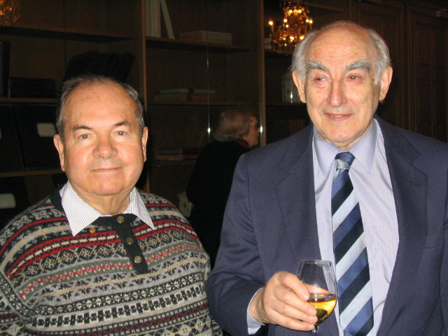 AA Abrikosov and VL Ginzburg